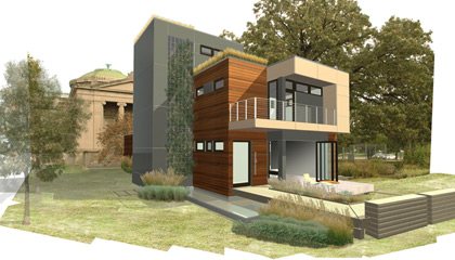 A 3D-snapshot of the mkSolaire (or "Smart House"), a house design originally designed by Michelle Kaufmann, design is now owned by Blu Homes. for the ecology behind its features. Permission was granted by Michelle Kaufmann for use of this image at wikimedia commons.